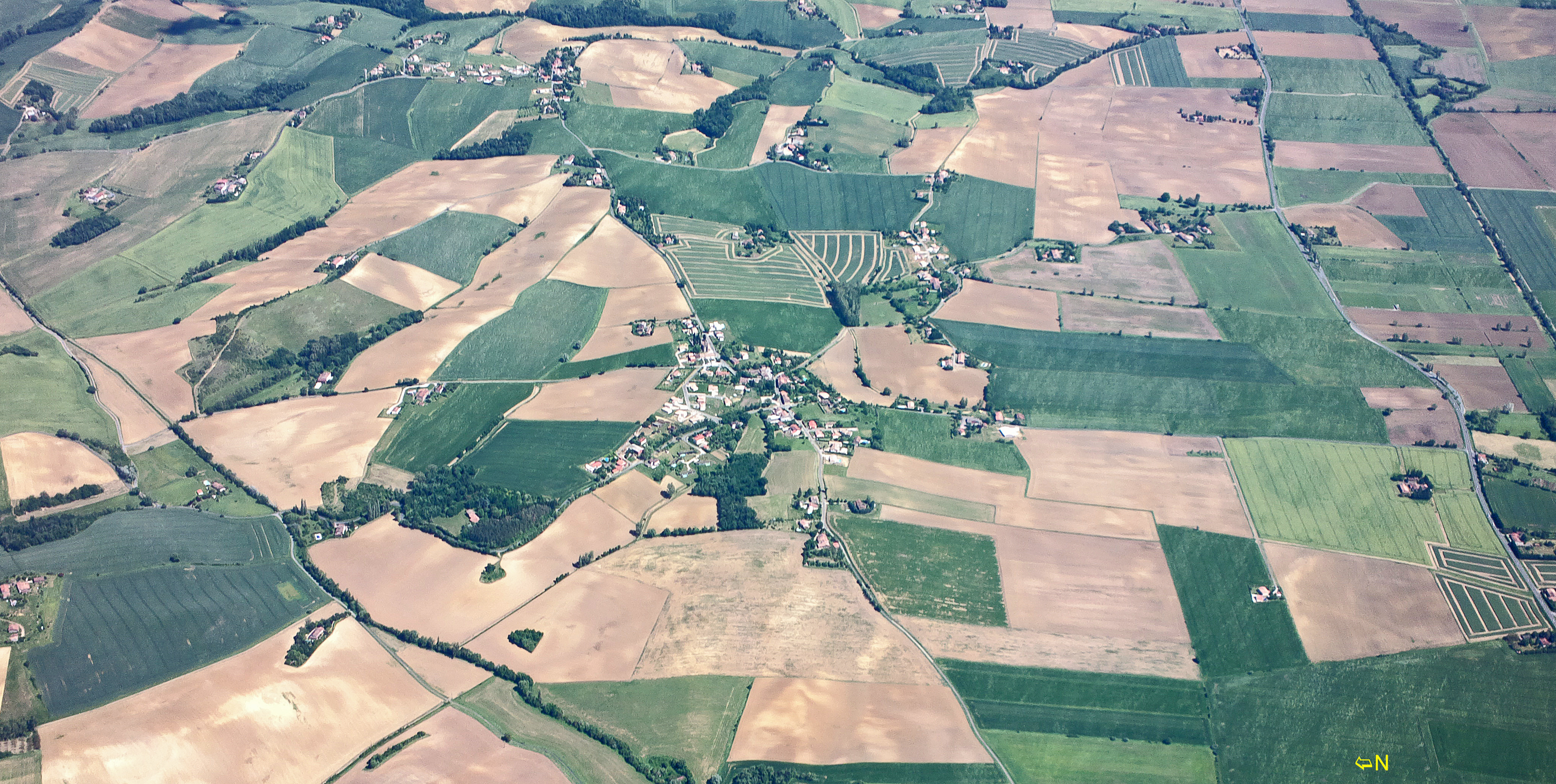 Aerial view of Montcabrier, Tarn, France.